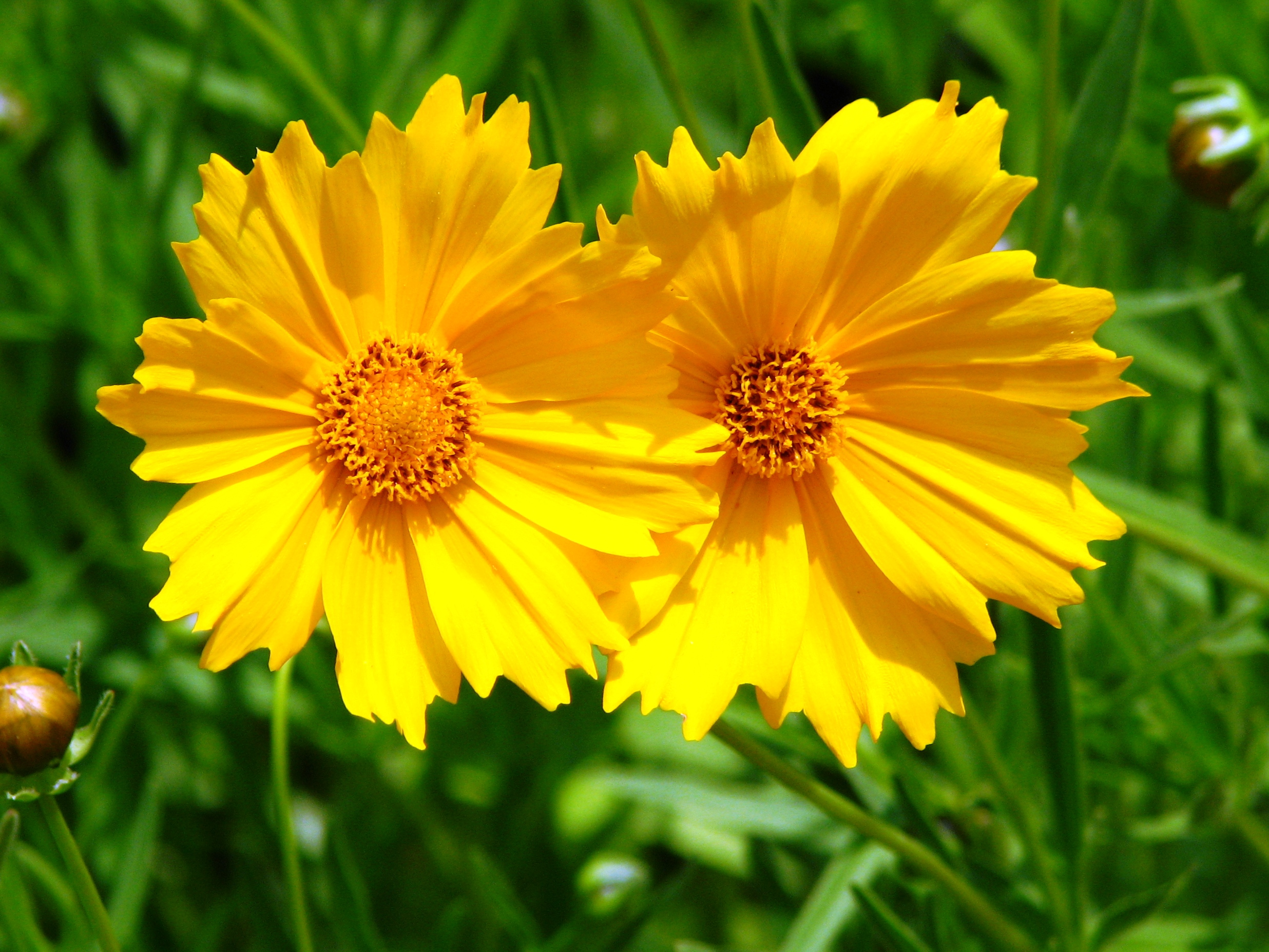 Coreopsis grandiflora. From the collection of the Main Botanical Garden of Academy of Sciences in Moscow (perennials plot).